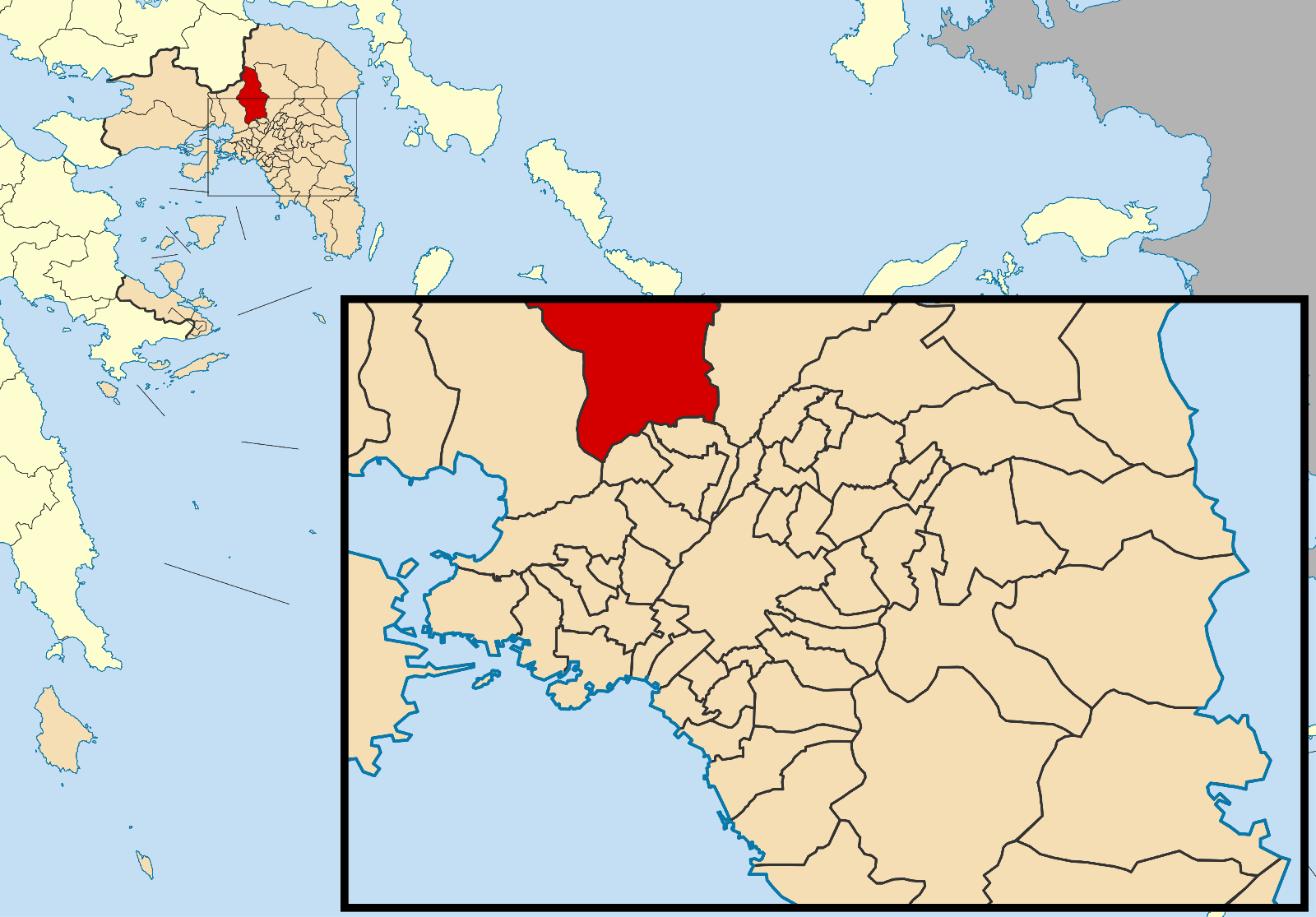 Locator map for Fyli municipality in Greek region Attica (2011)